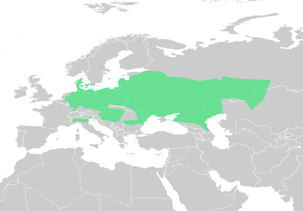 Distribution map of Pelobates fuscus from IUCN. Description here.